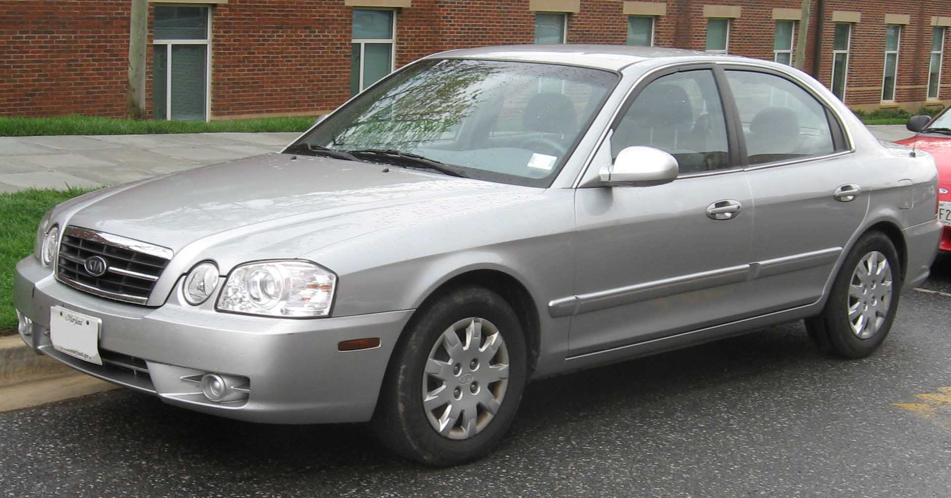 2005-2006 Kia Optima photographed in College Park, Maryland, USA.